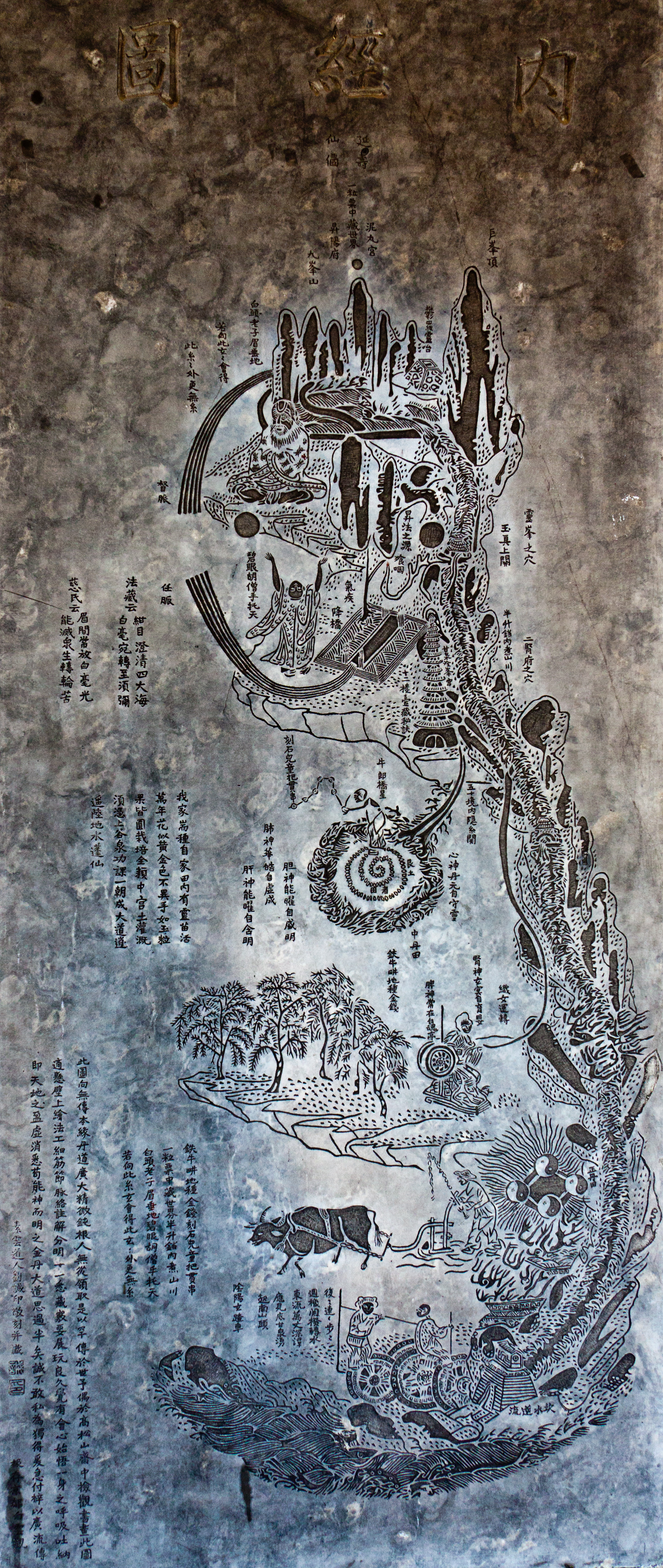 The Neijing Tu (simplified